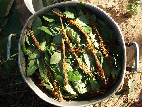 ayahuasca y chacruna - cooking I